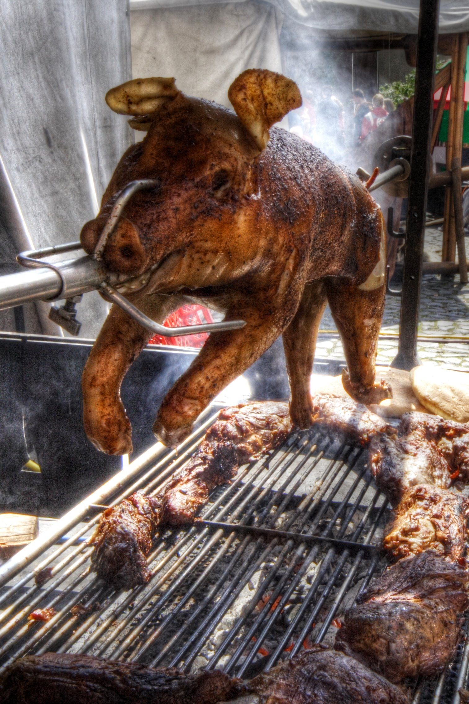 A whole grilled pig (Spanferkel).